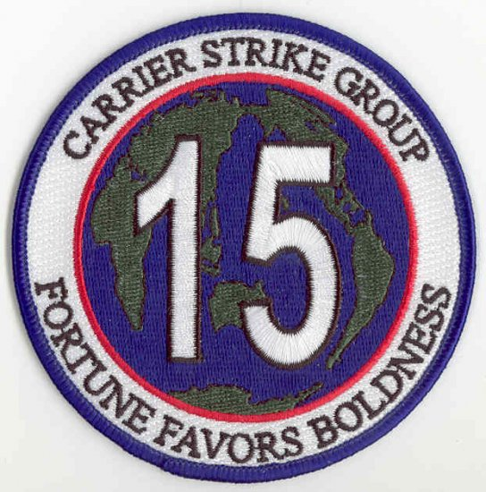 Official U.S. Navy patch